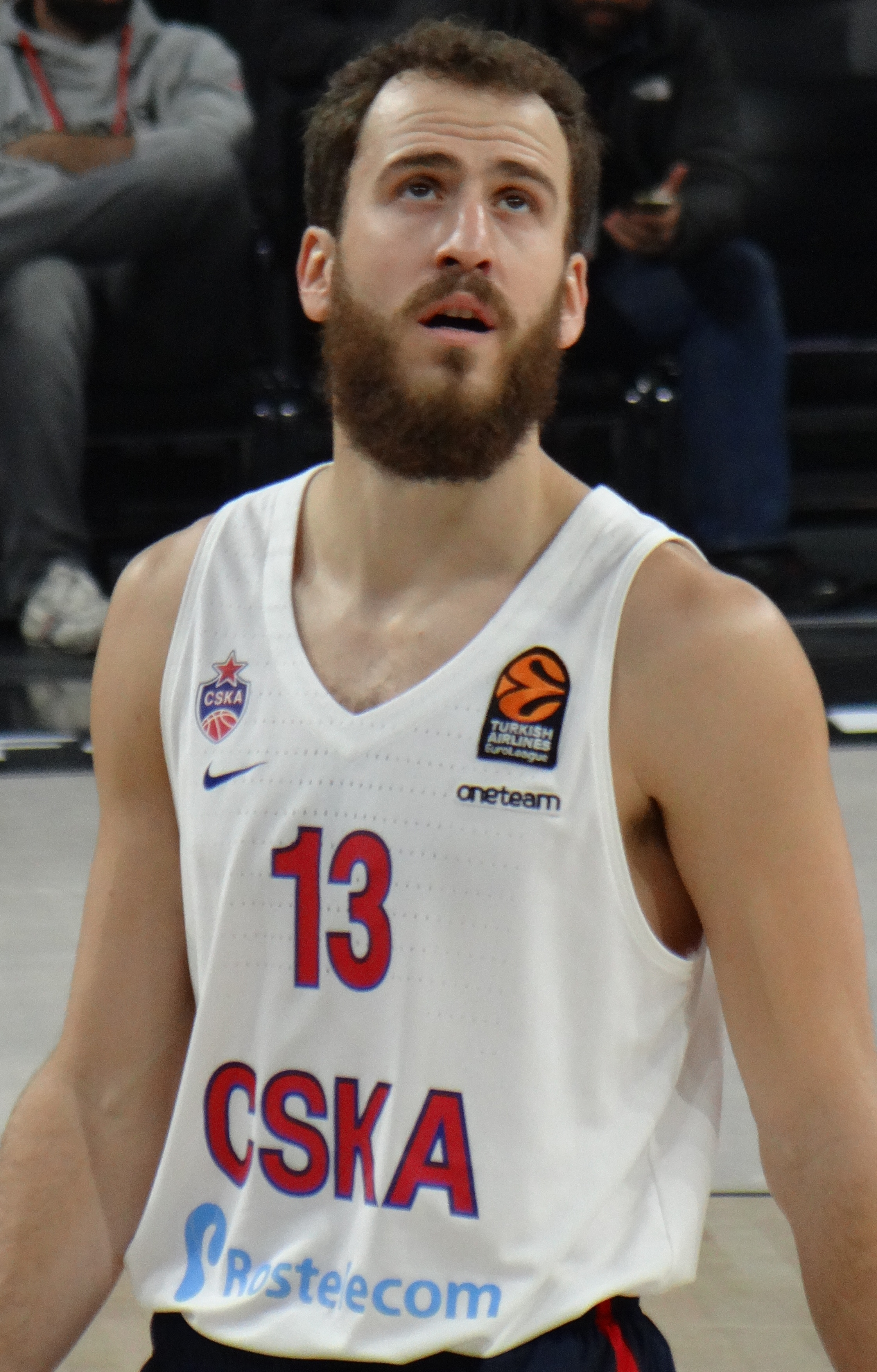 Sergio Rodríguez 13 PBC CSKA Moscow 20171027